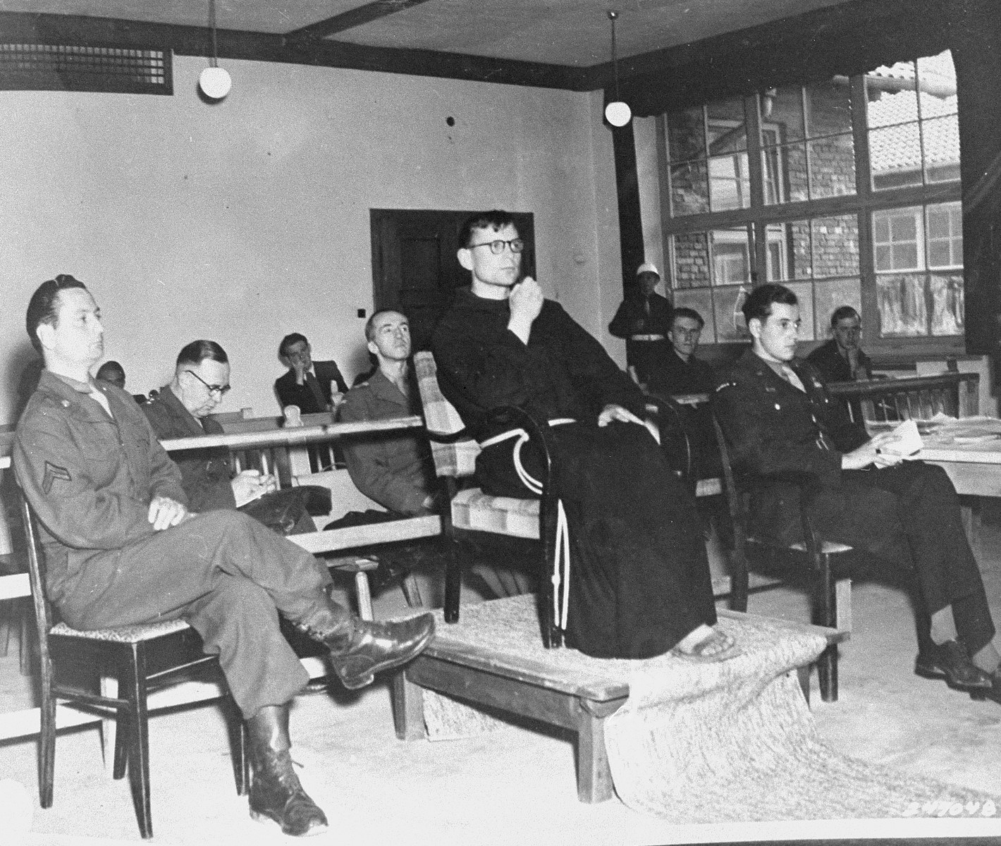 Father Lelere, a former prisoner, testifies at the trial of former camp personnel and prisoners from Flossenbuerg. On the right is Fred Stecker, a court interpreter.